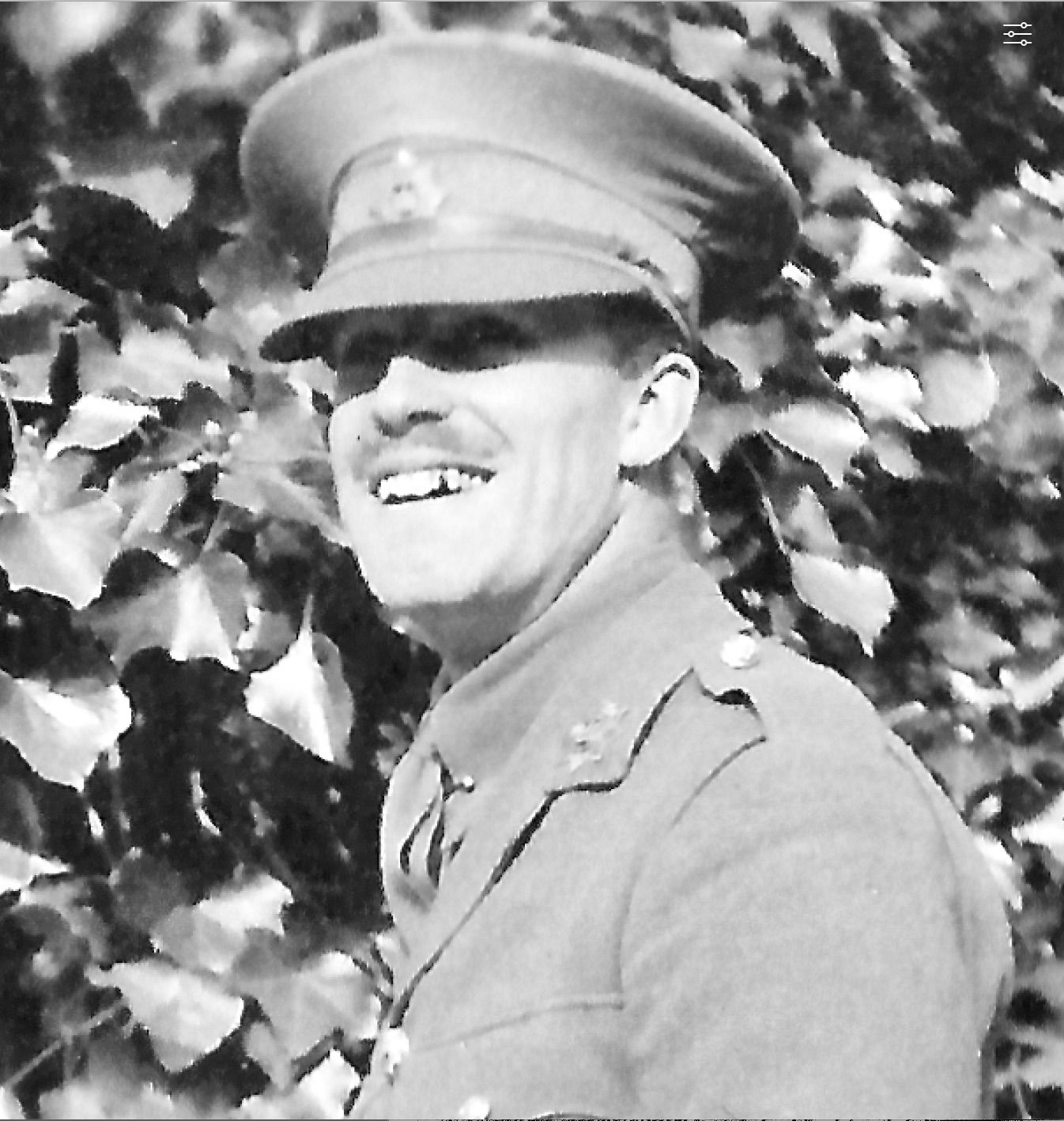 Portrait from motor-cycle photograph, wearing the uniform of King Edward's Regiment of Horse